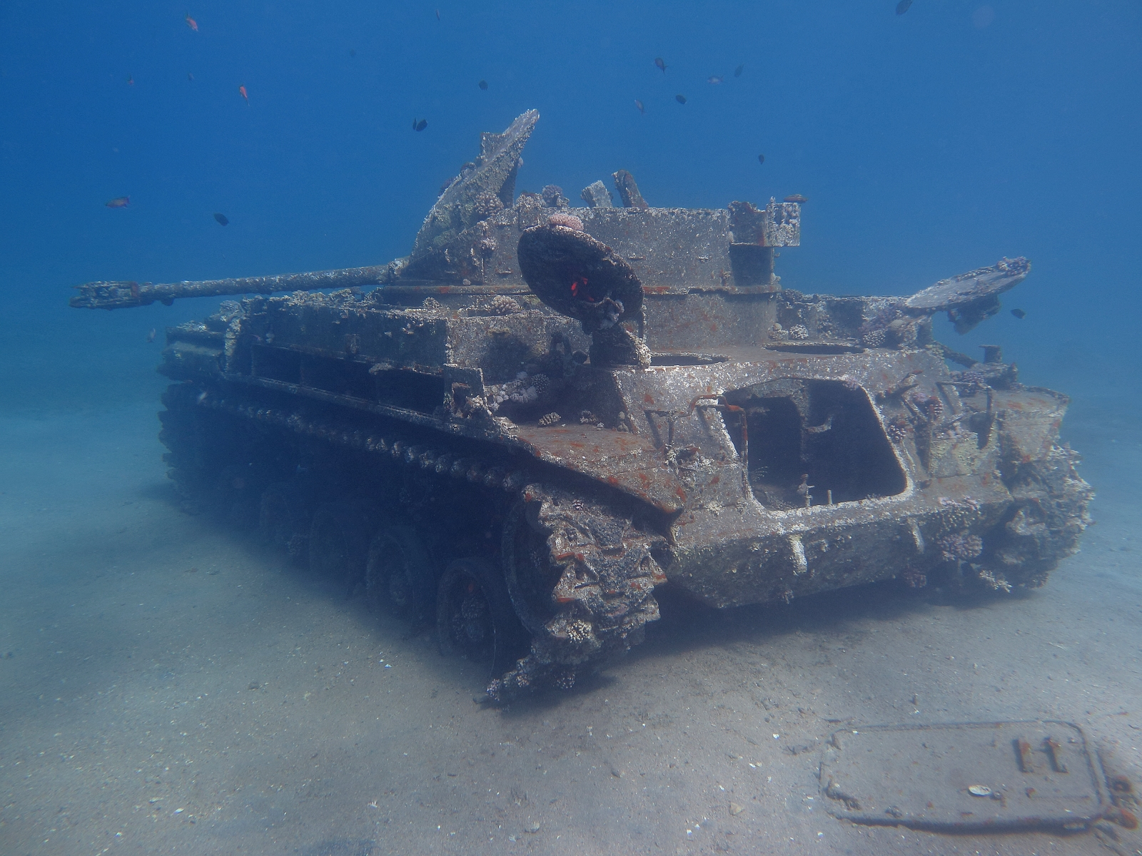 An M 42 Anti Aircraft Tank sunken in the Red Sea of Jordan